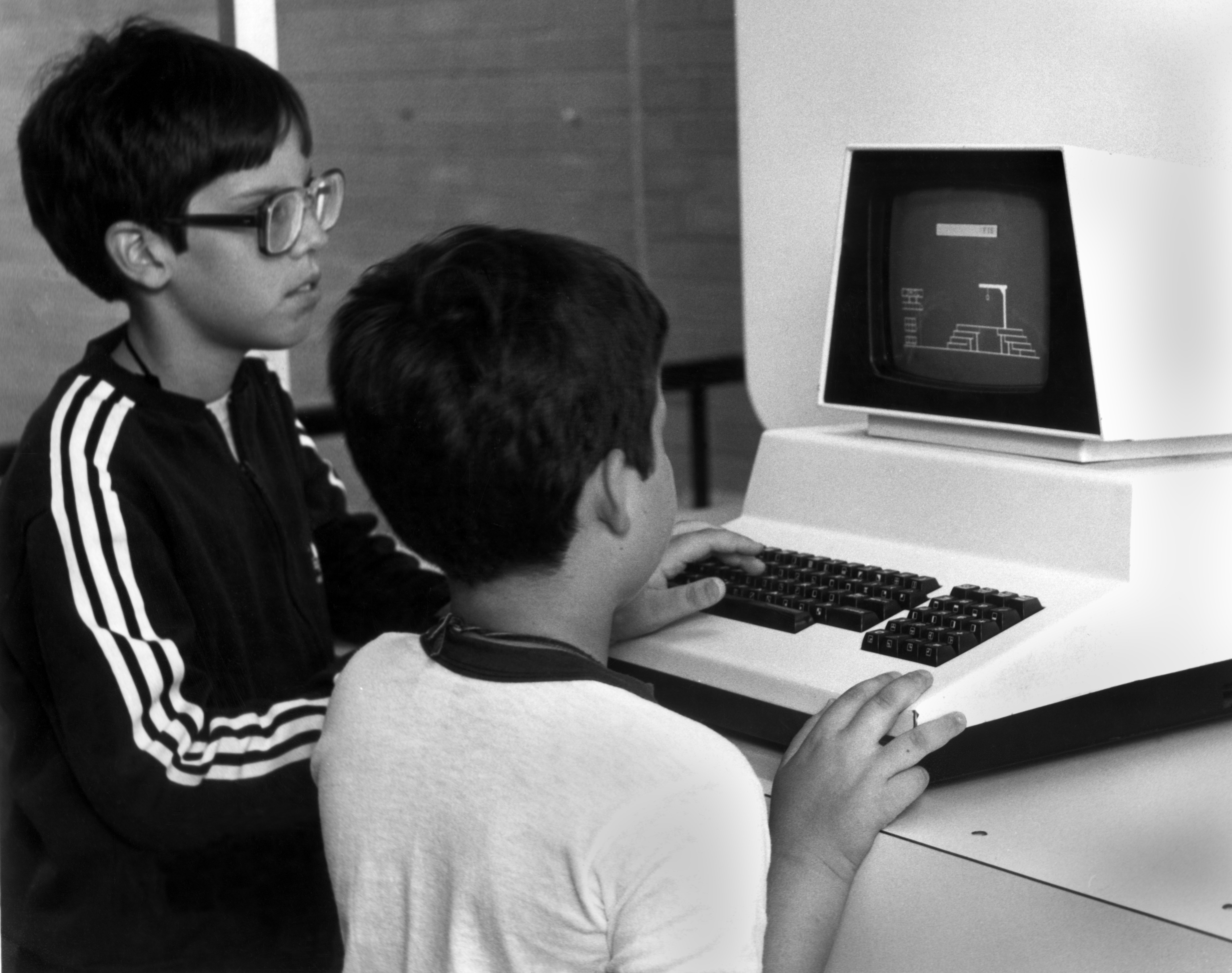 Exhibit at American Museum of Science and Energy Oak Ridge Tennessee 8-1-1983